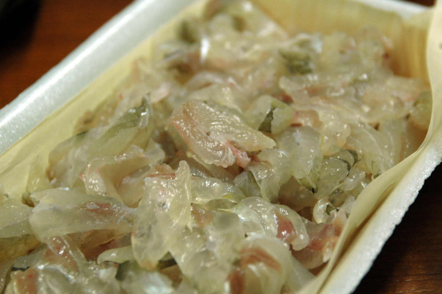 Jwichi hoe (쥐치회), a Korean raw dish made with Stephanolepis cirrhifer